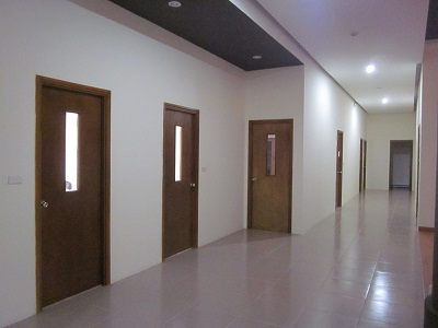 VIASM1